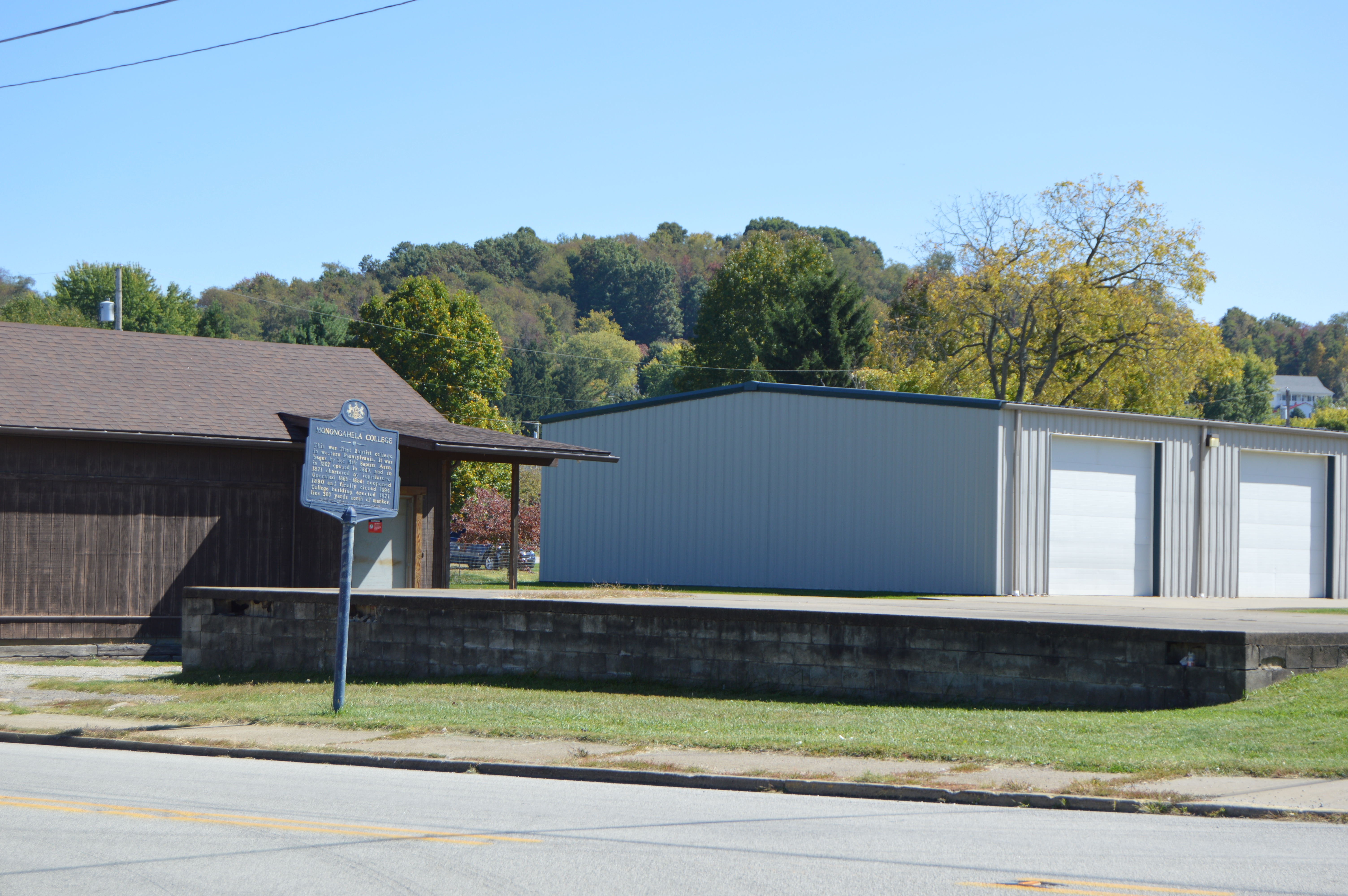 Site of the former Monongahela College, today located on the eastern corner of Pennsylvania Route 188 and Pine Street next to the post office (visible at left) in Jefferson, Pennsylvania, United States.